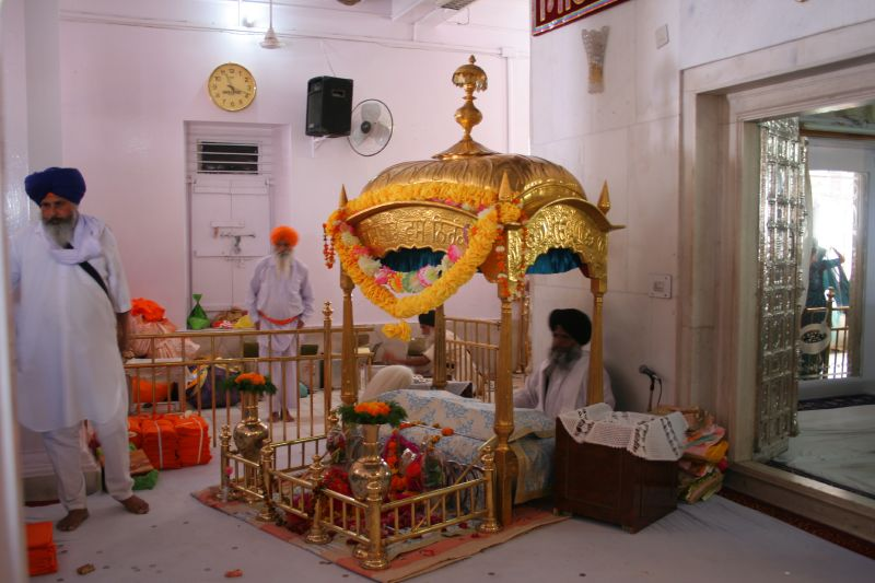 The inner sanctum of Takht Sri Keshgarh Sahib, where the Guru Granth Sahib resides. Taken on Vaisakhi.